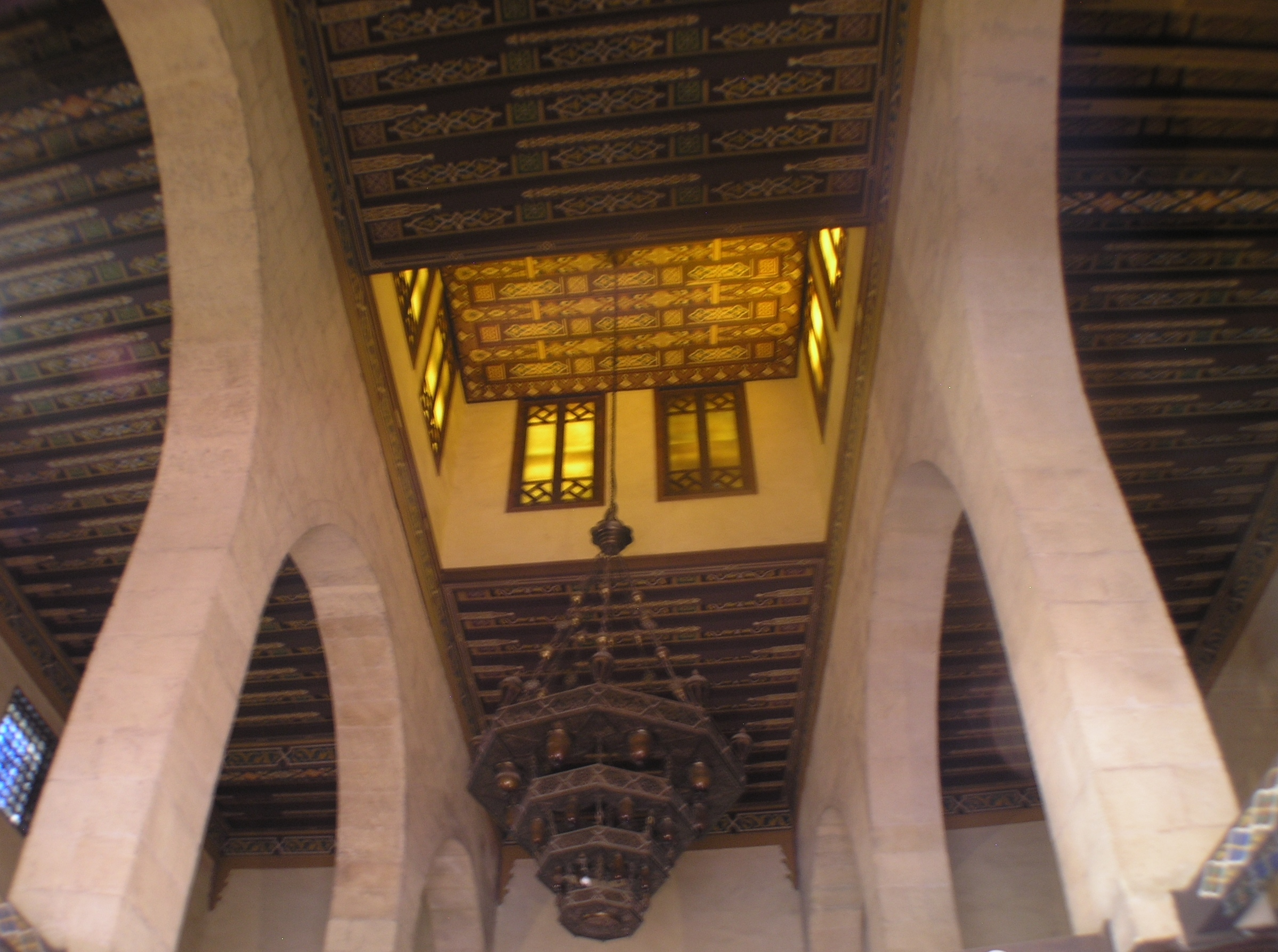 Cairo - Islamic district - Al Azhar Mosque - chandelier in prayer hall